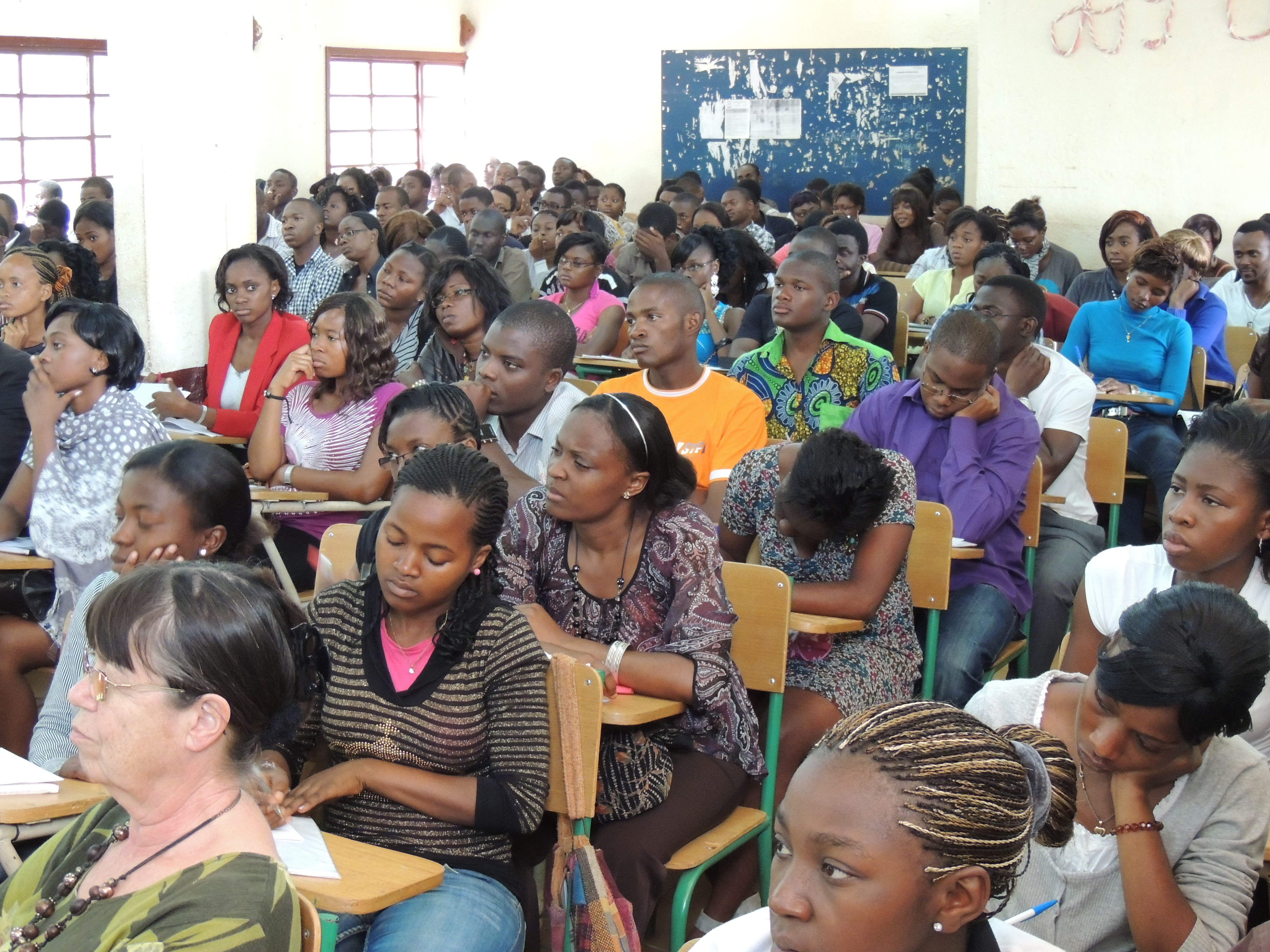 Attitude en salle de cours